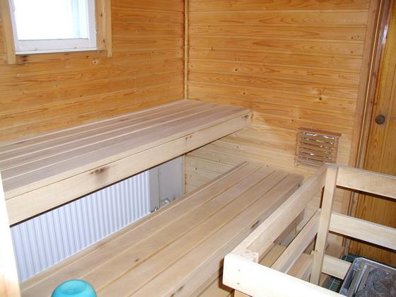 A small Finnish sauna.